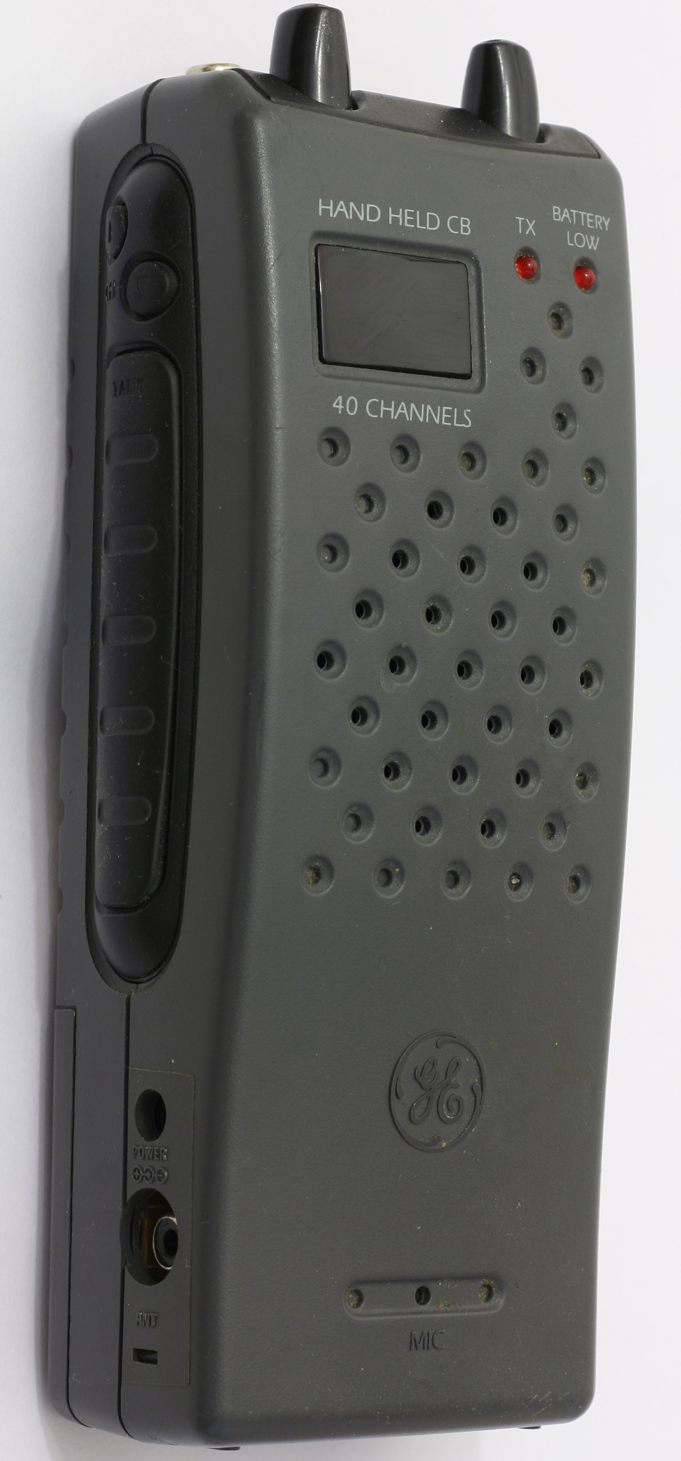 Hand-held citizens' band (CB) radio